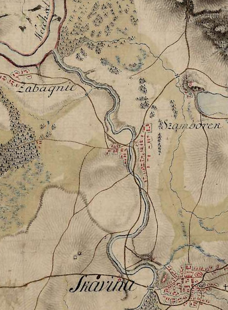 Samborek near Skawina on the so called Miege's Map